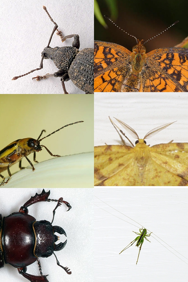 Comparison of insect antennae.